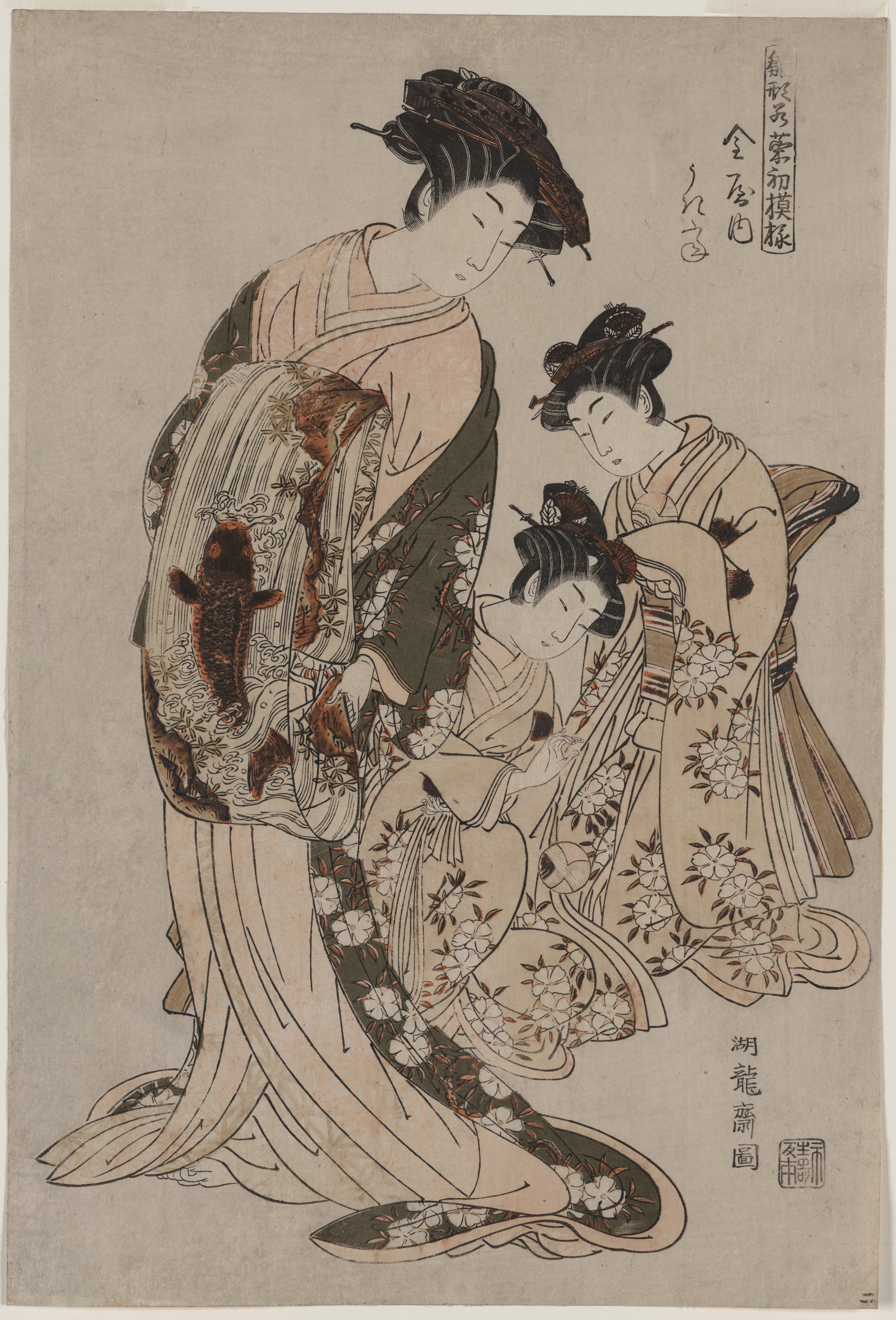 "Hinagata wakana no hatsu moyō". 18th century Japanese Ukiyo-e woodcut. A woman, full-length, with two attendants sitting or kneeling behind her. Ōban size print. From the series: Kanaya uchi Ukifune (Pattern form: Ukifune of the Kanaya House).